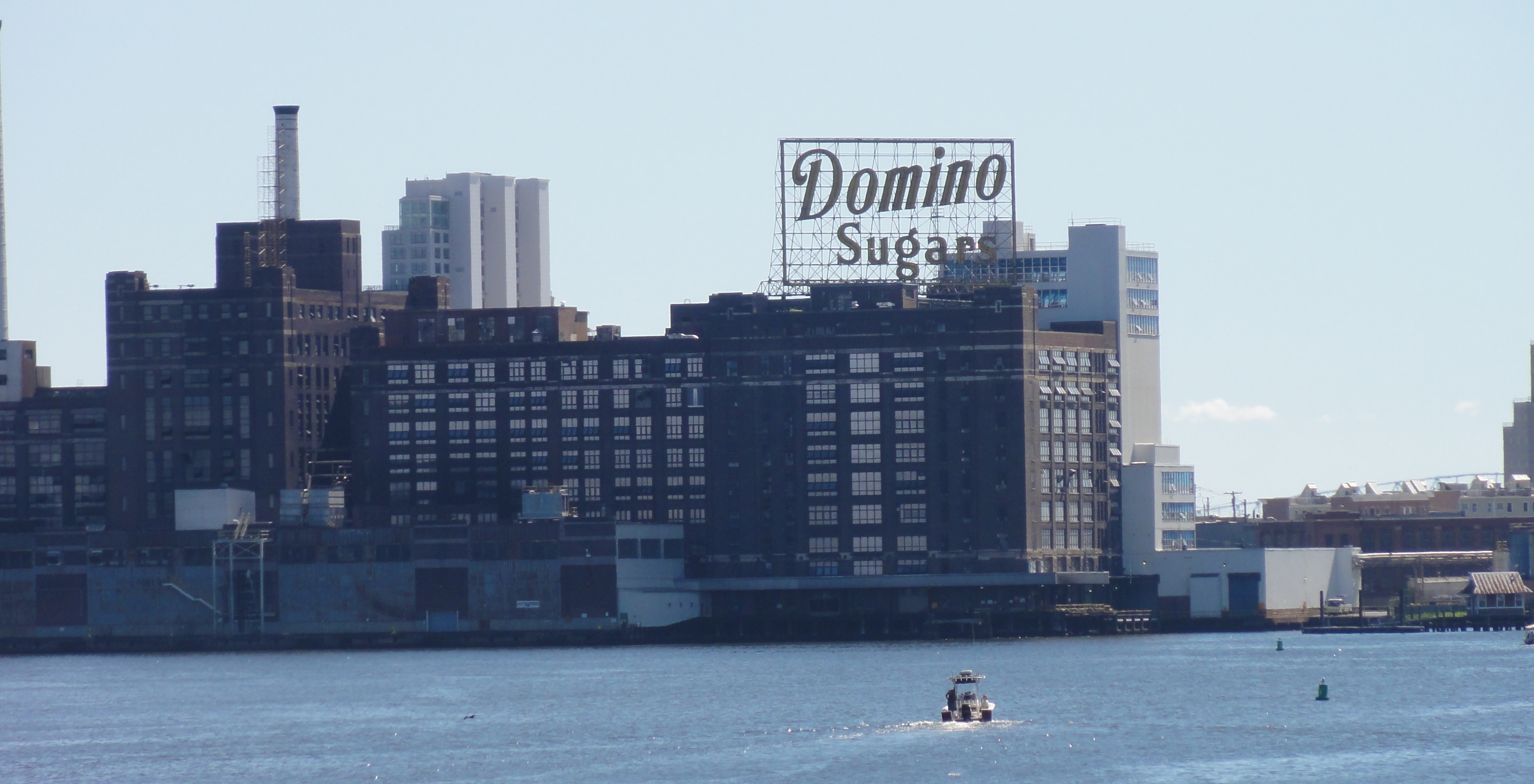 Domino Sugars building; view from Baltimore Harbor